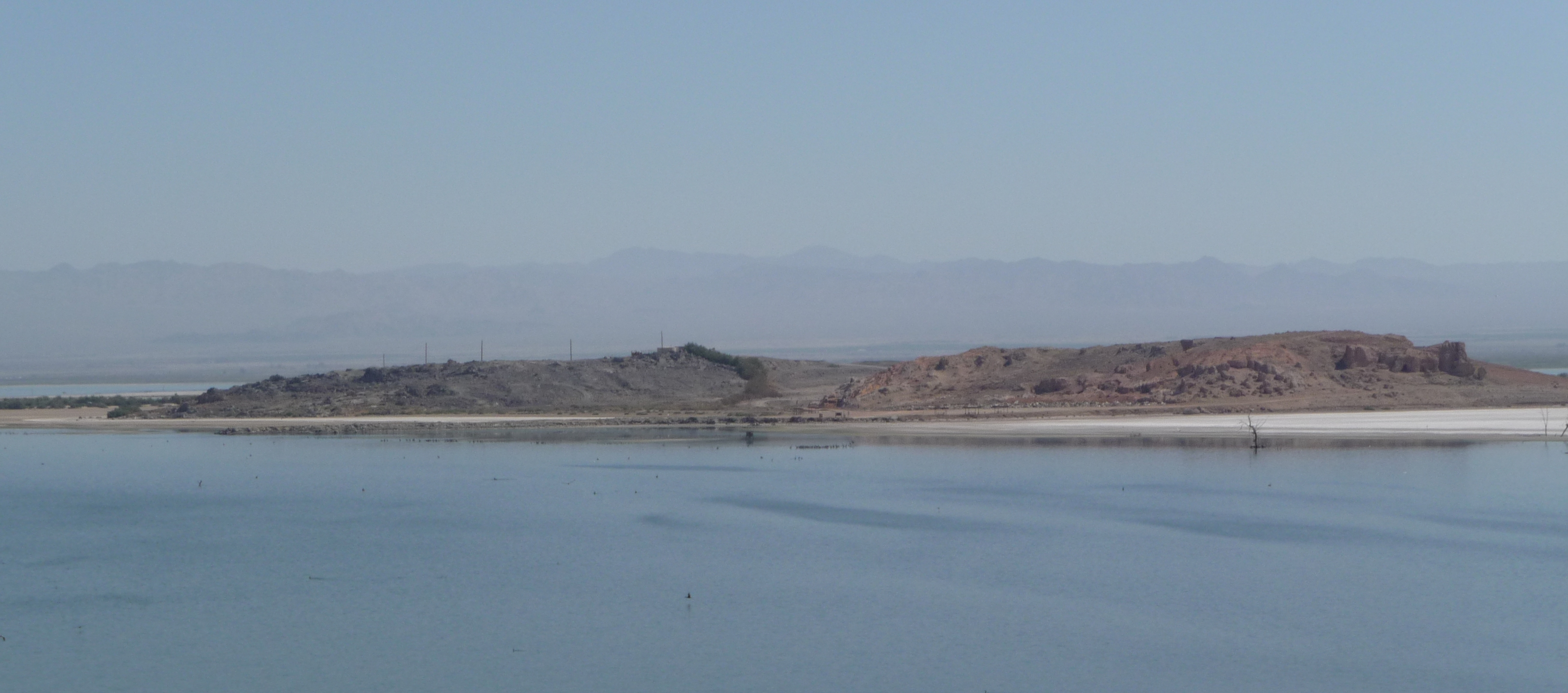 Red Island from Rock Hill, Salton Buttes, California, USA